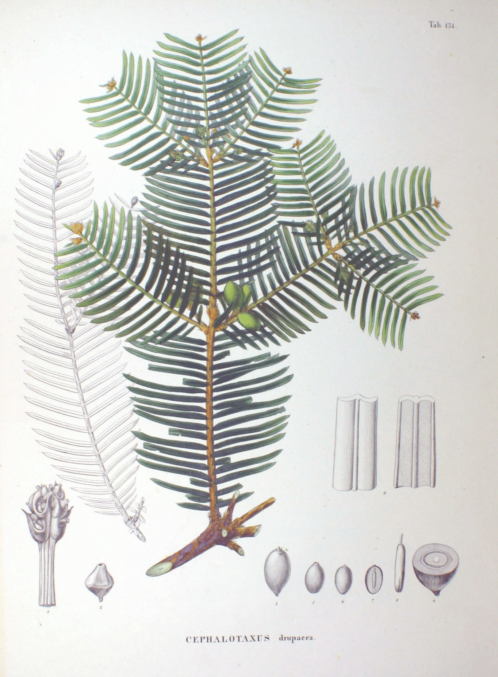 Cephalotaxus harringtonii (syn. C. drupacea) Plate from book